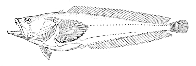 Porichthys porosissimus, a species of Midshipman fish.